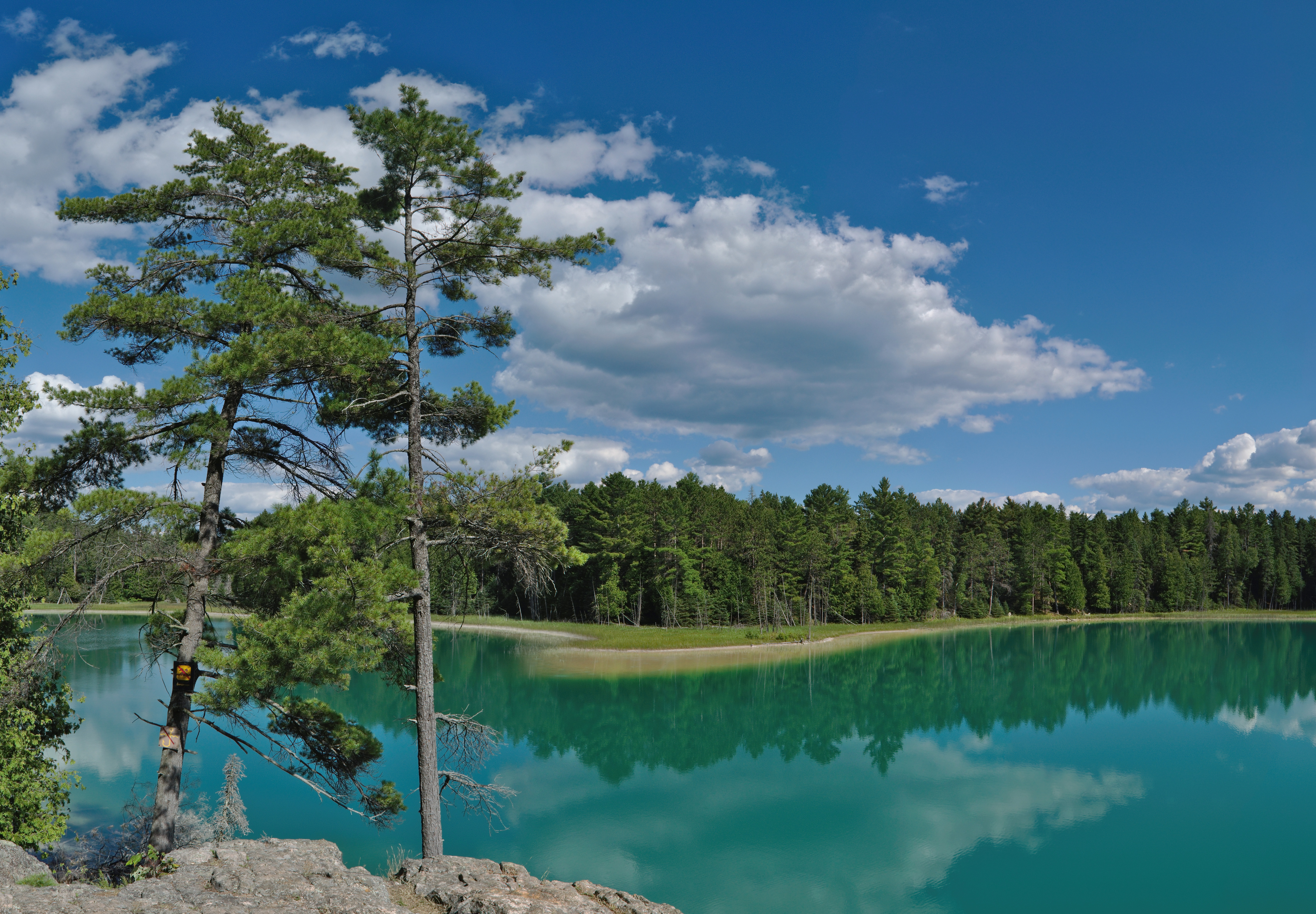 Meromictic McGinnis Lake, Petroglyphs Provincial Park. This photo was taken in a protected area in Canada, Wikidata item Petroglyphs Provincial Park (Q470703)